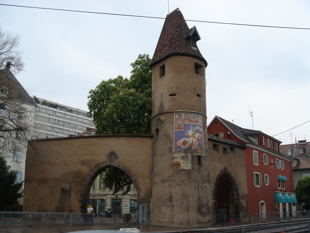 "Bollwerk" Tower, Mulhouse